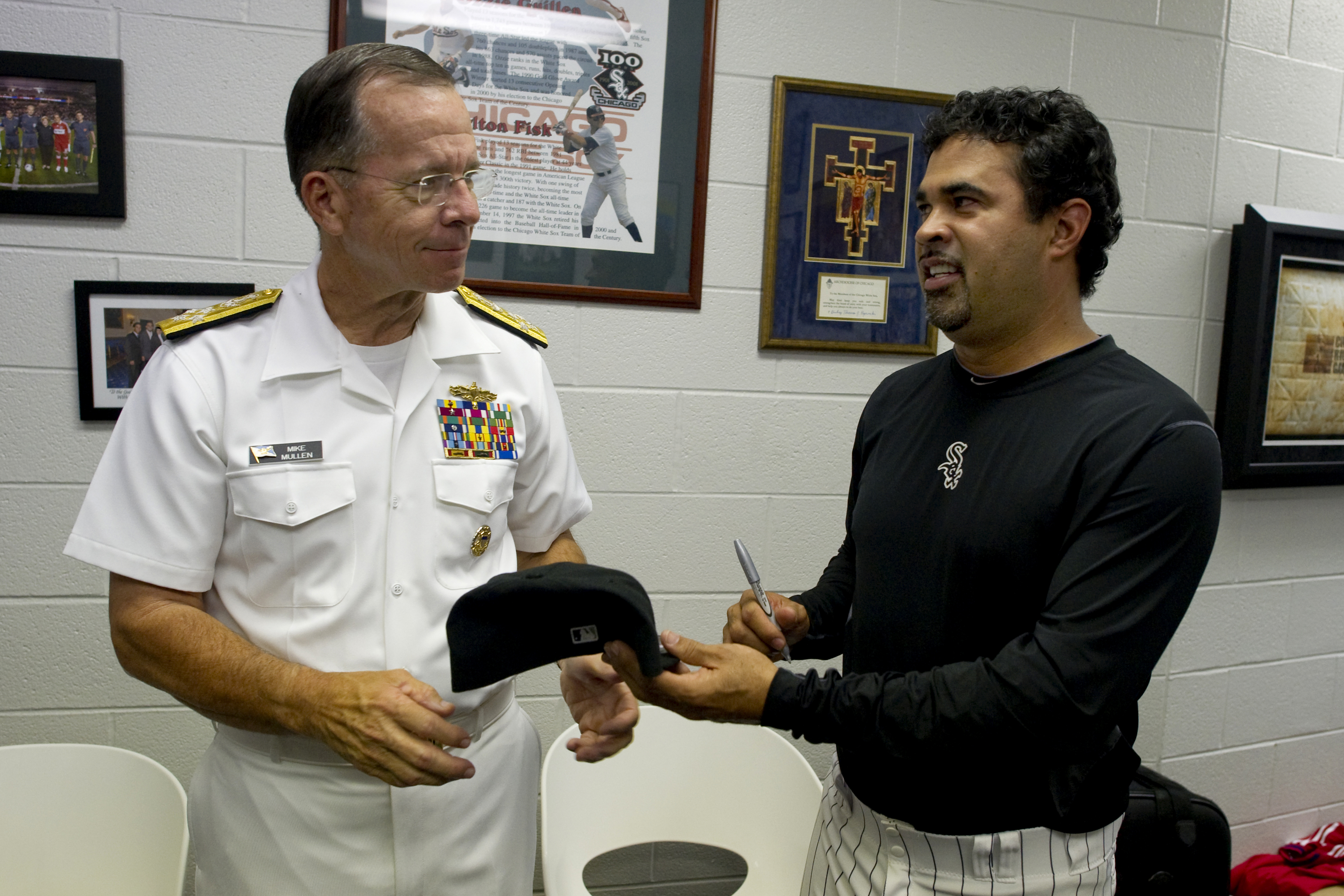 Navy Adm. Mike Mullen, chairman of the Joint Chiefs of Staff, visits with Chicago White Sox manager Ozzie Guillen in Chicago, Aug 25, 2010. Mullen threw out the first pitch at U.S. Cellular Field before the White Sox played the Baltimore Orioles.